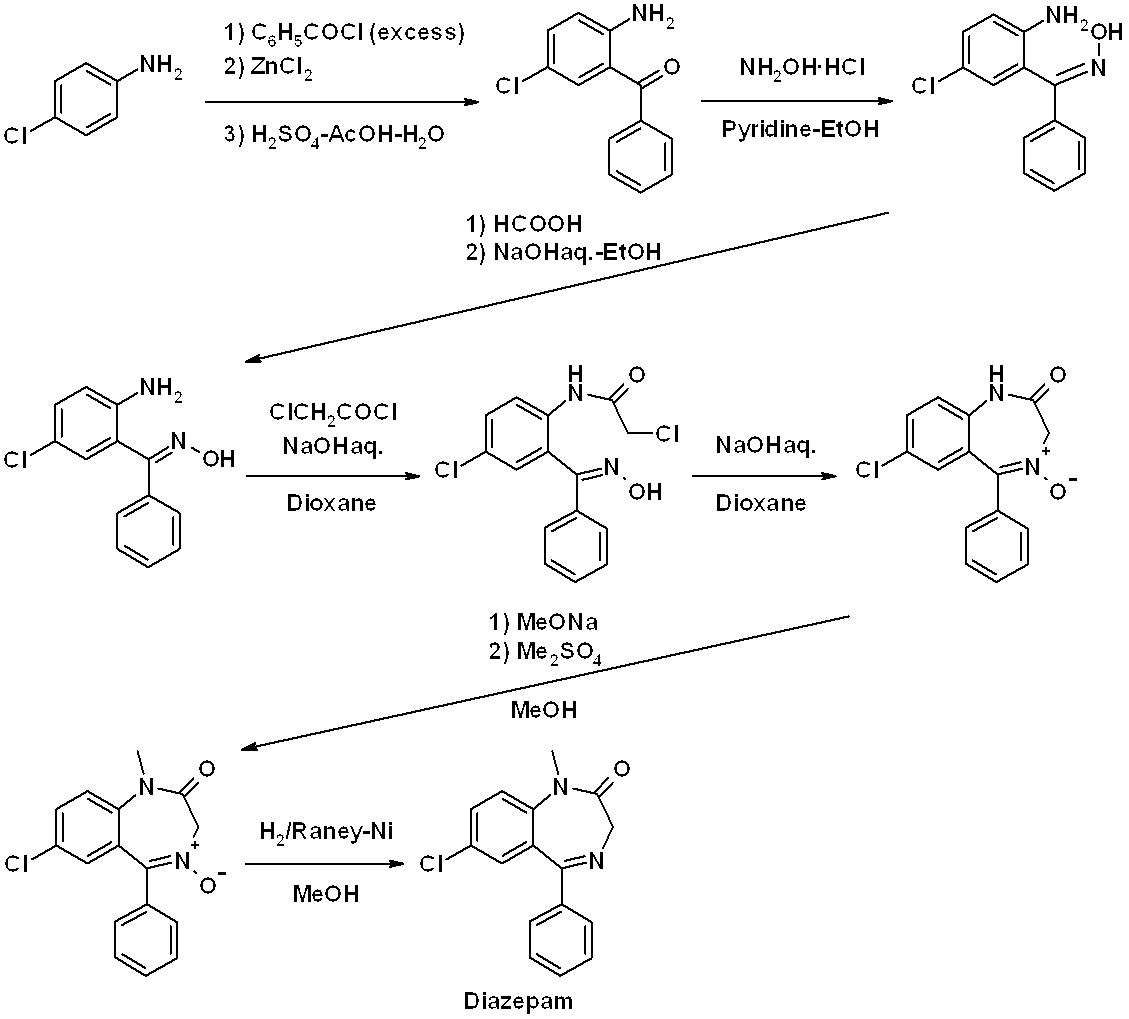 Synthetic route of diazepam by L. H. Sternbach et al.